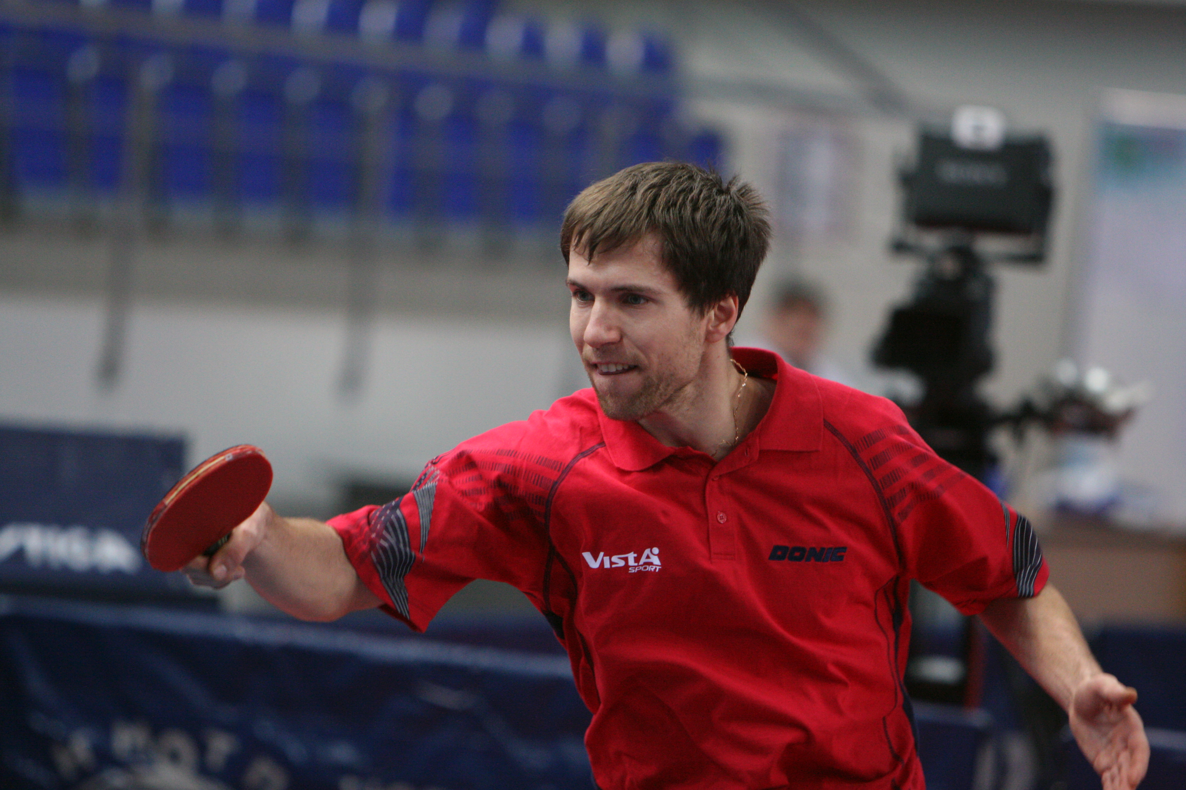 Igor Rubtsov in 2009